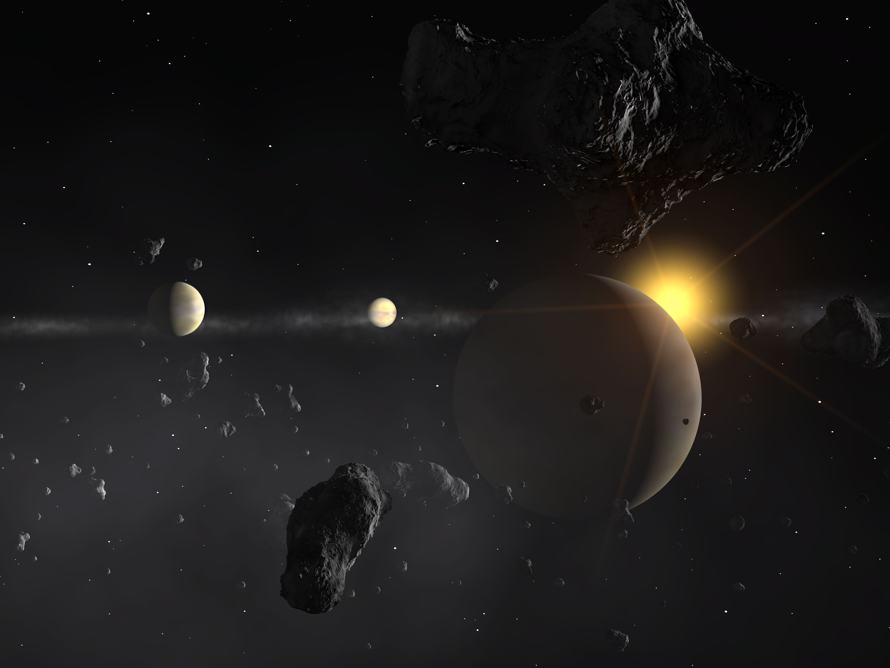 Using the ultra-precise HARPS spectrograph on ESO's 3.6-m telescope at La Silla (Chile), a team of European astronomers have discovered that a nearby star is host to three Neptune-mass planets. The innermost planet is most probably rocky, while the outermost is the first known Neptune-mass planet to reside in the habitable zone. This unique system is likely further enriched by an asteroid belt. This view shows a point of view inside the asteroid belt, which is assumed here to lie between the two outermost planets.